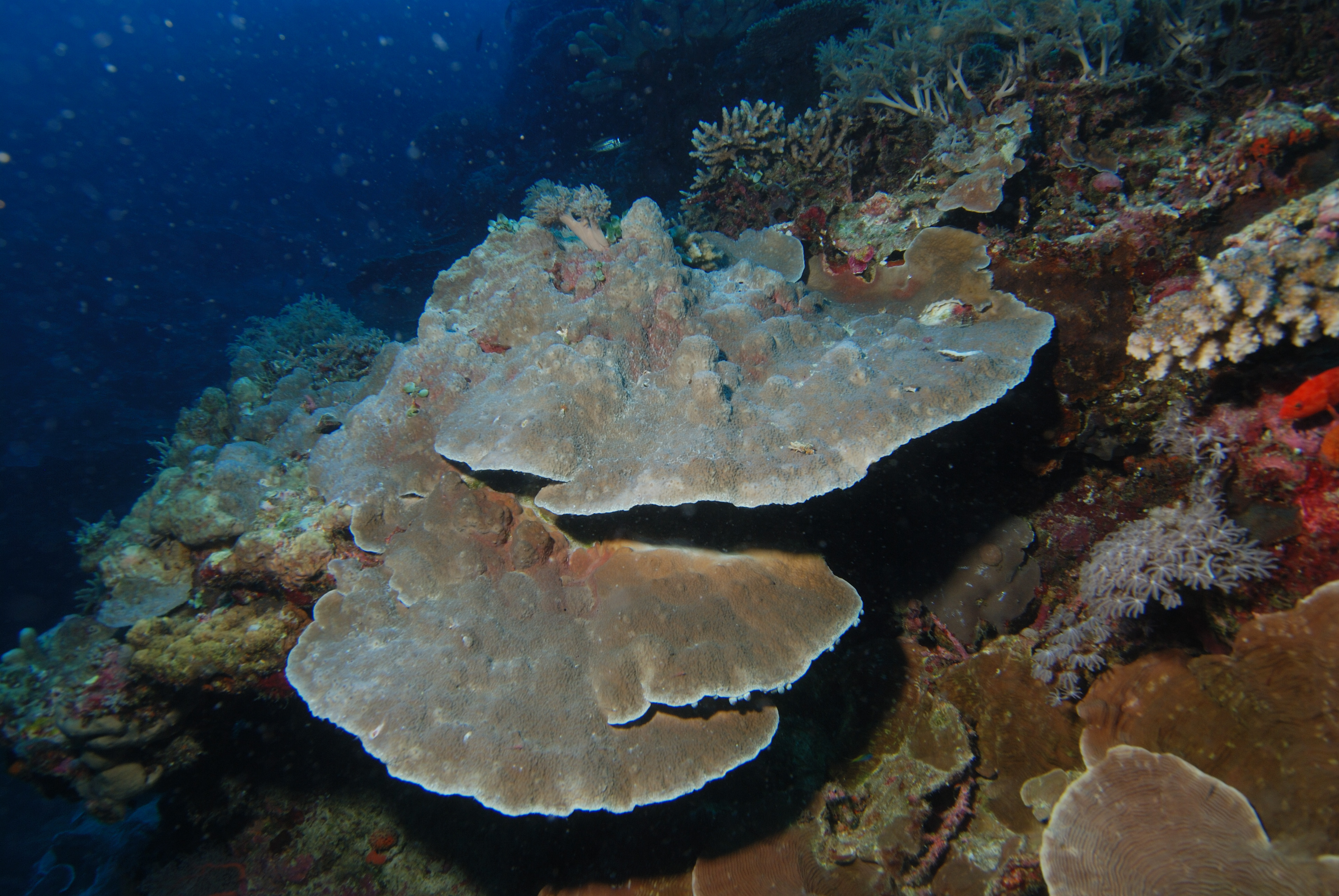 A Montipora foliosa.